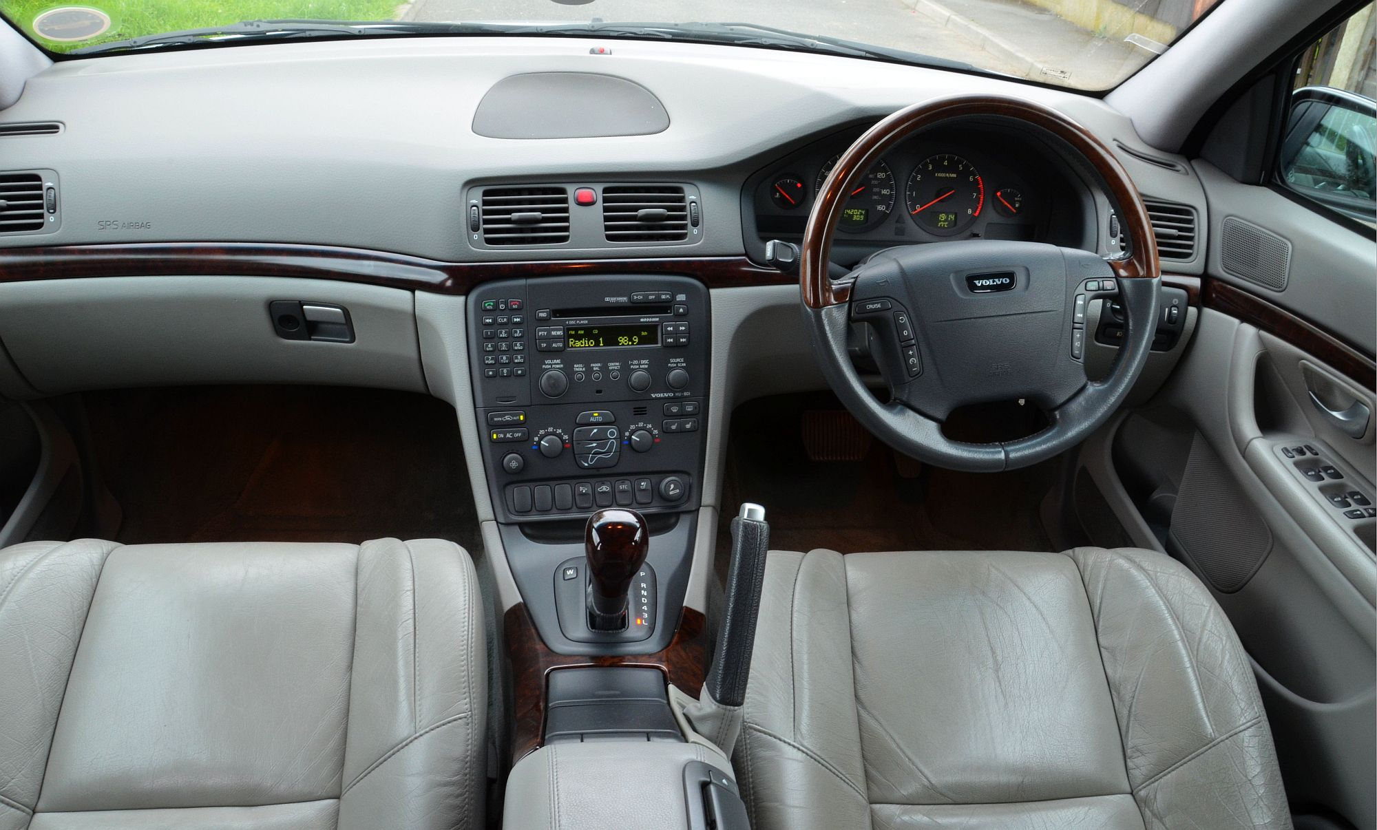 Volvo S80 2.4T 2002 Blue, interior front.